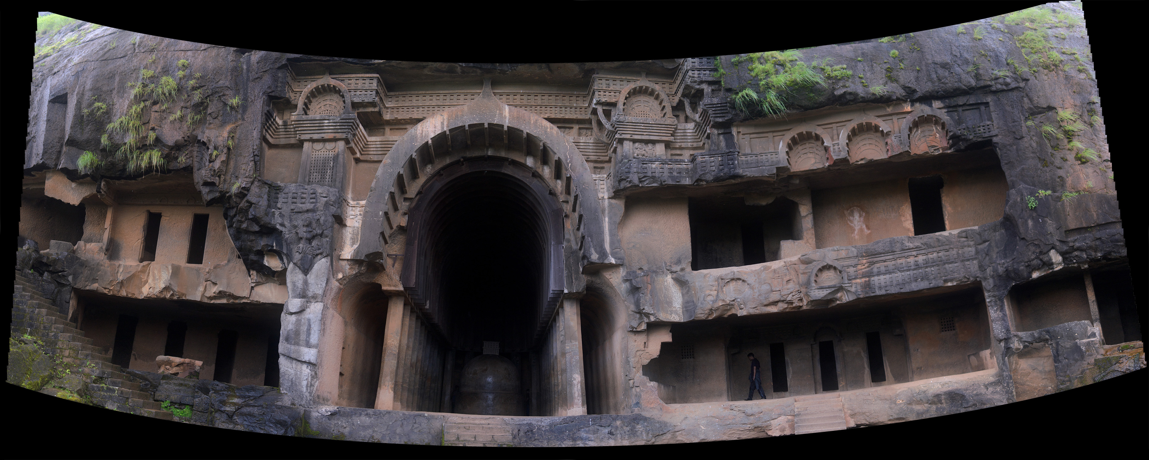 Panorama Bhaja Caves, seven clicks stitched panorama image